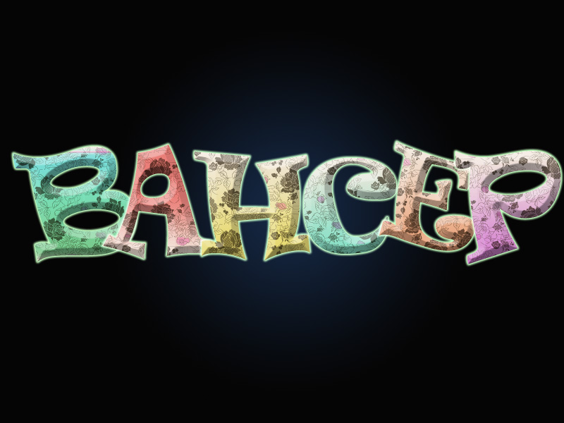 Beijing and Hongkong Cultural Exchange Program Logo 1